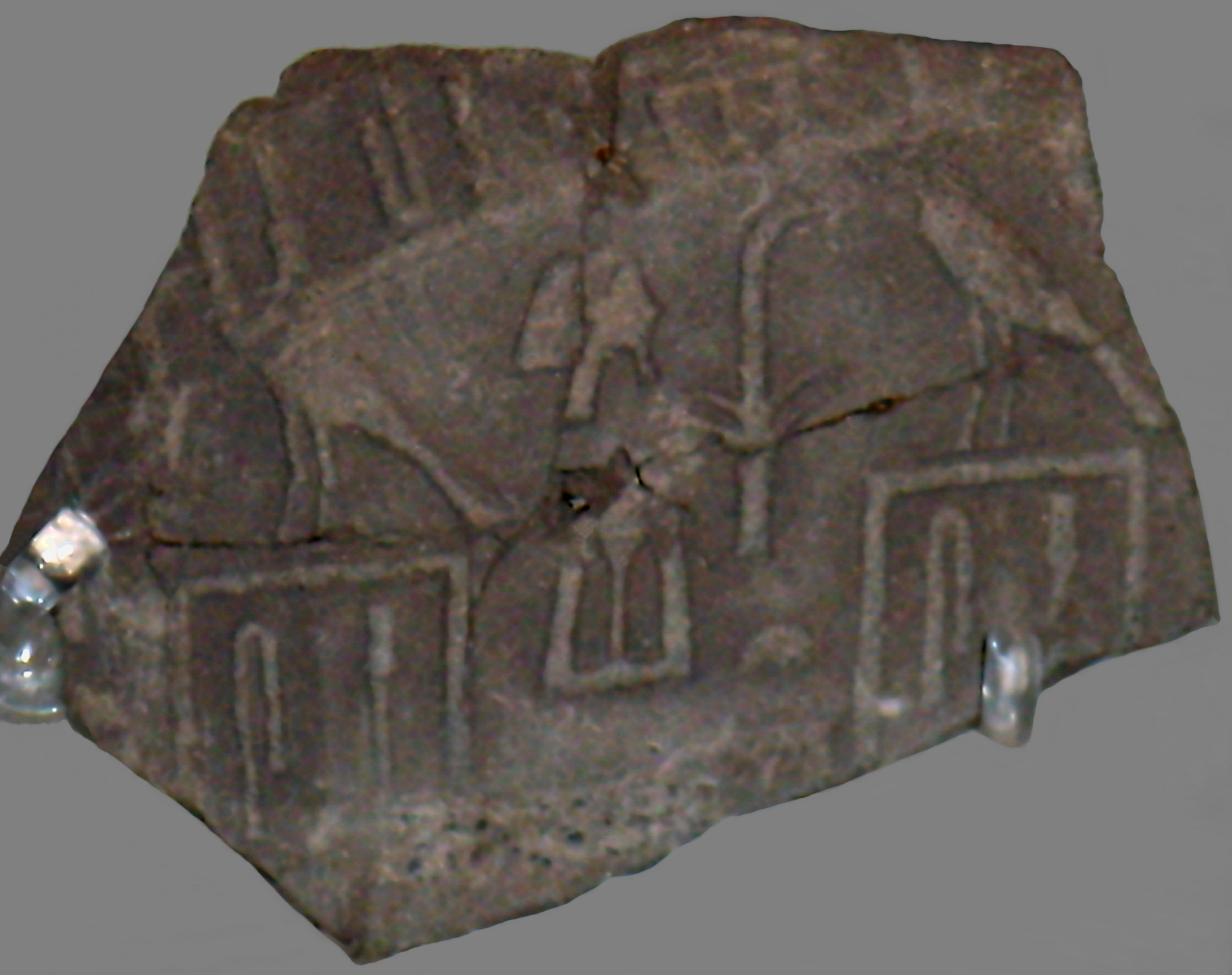 Sealimpression with the name of king Sekhemib, Abydos, 2nd Dynasty